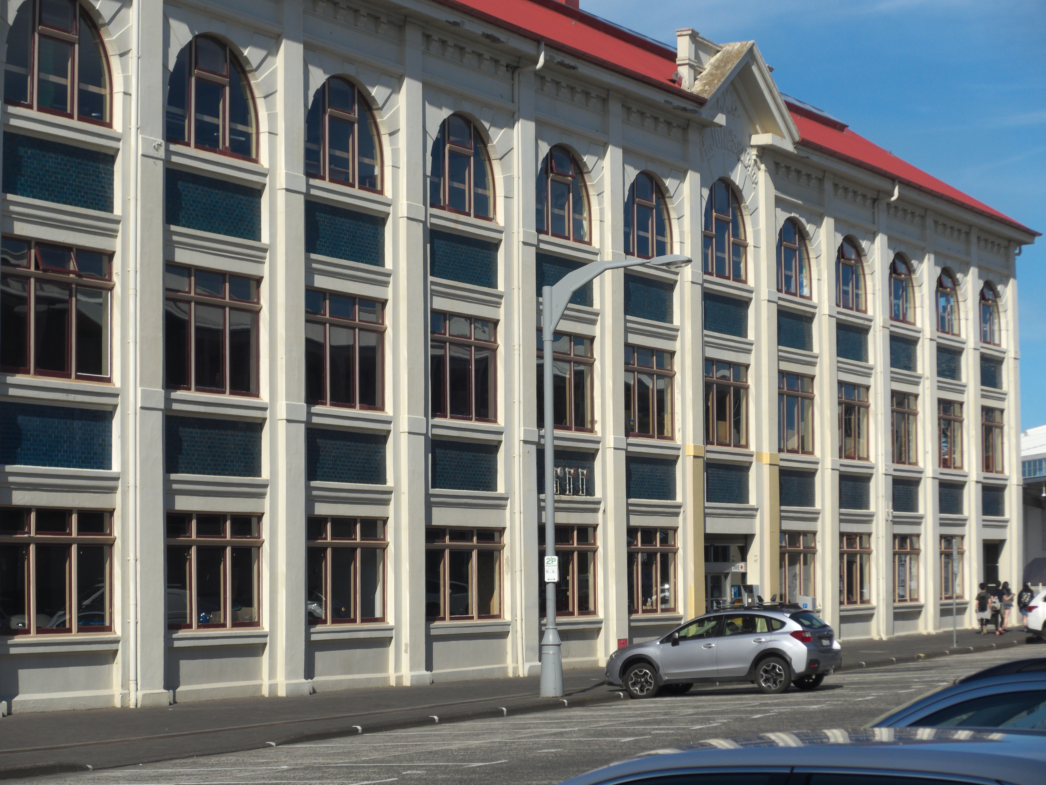 Building at 41 Hunter Street, Hobart, part of the University of Tasmania School of Creative Arts, previously Tasmania College of the Arts. It's a reinforced concrete building built as stores and warehouses for Henry Jones and Company's IXL jam factory, probably completed in 1911.[1]